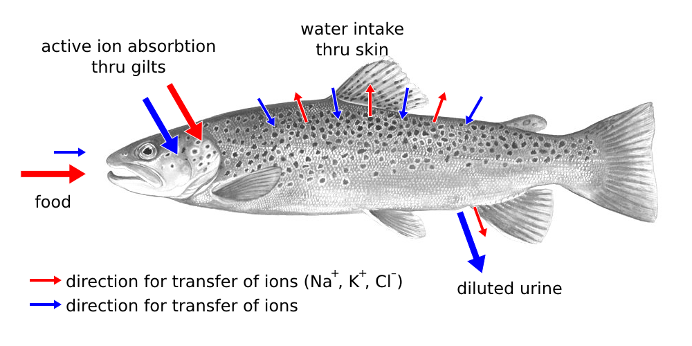 Osmoregulation by fishes